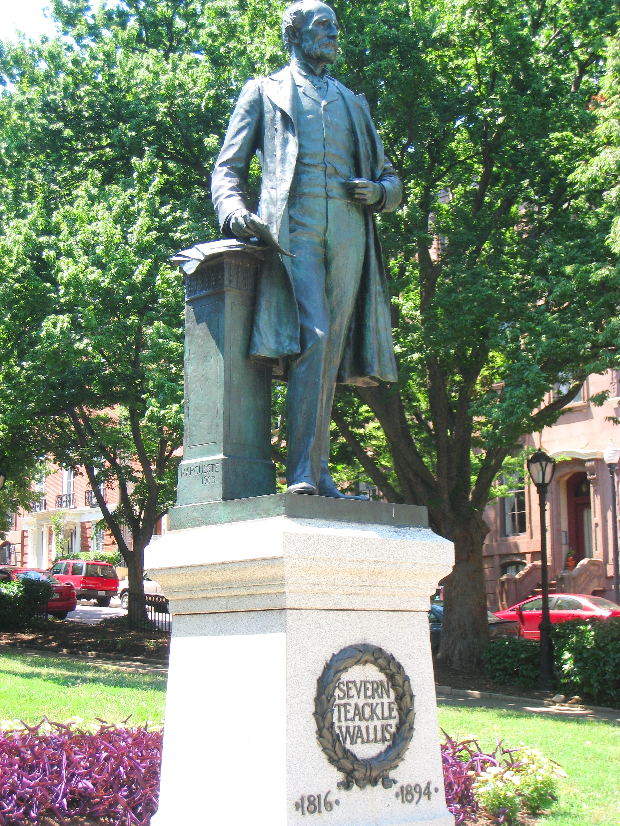 Severn Teackle Wallis statue, Mount Vernon Place, Baltimore, Maryland, USA. Sculptor Laurent-Honore Marqueste.